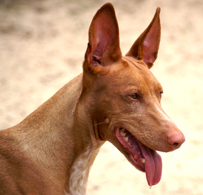 Kelb-tal Fenek (Pharaoh Hound according to FCI nomenclature), bitch, Ch. Tal-Wardija Arja Helwa, owner Jan Scotland (Germany)